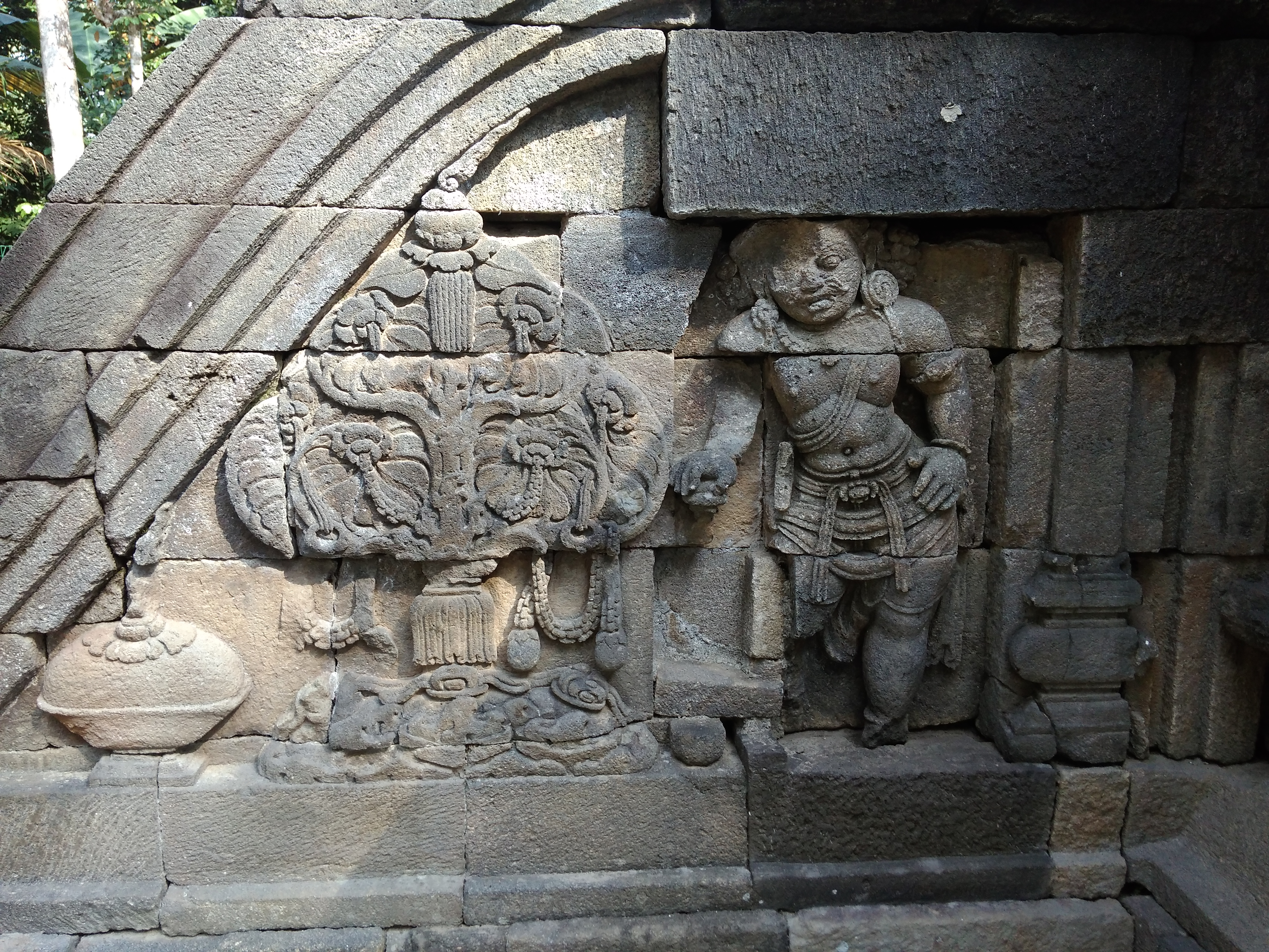 Stair relief of Candi Merak